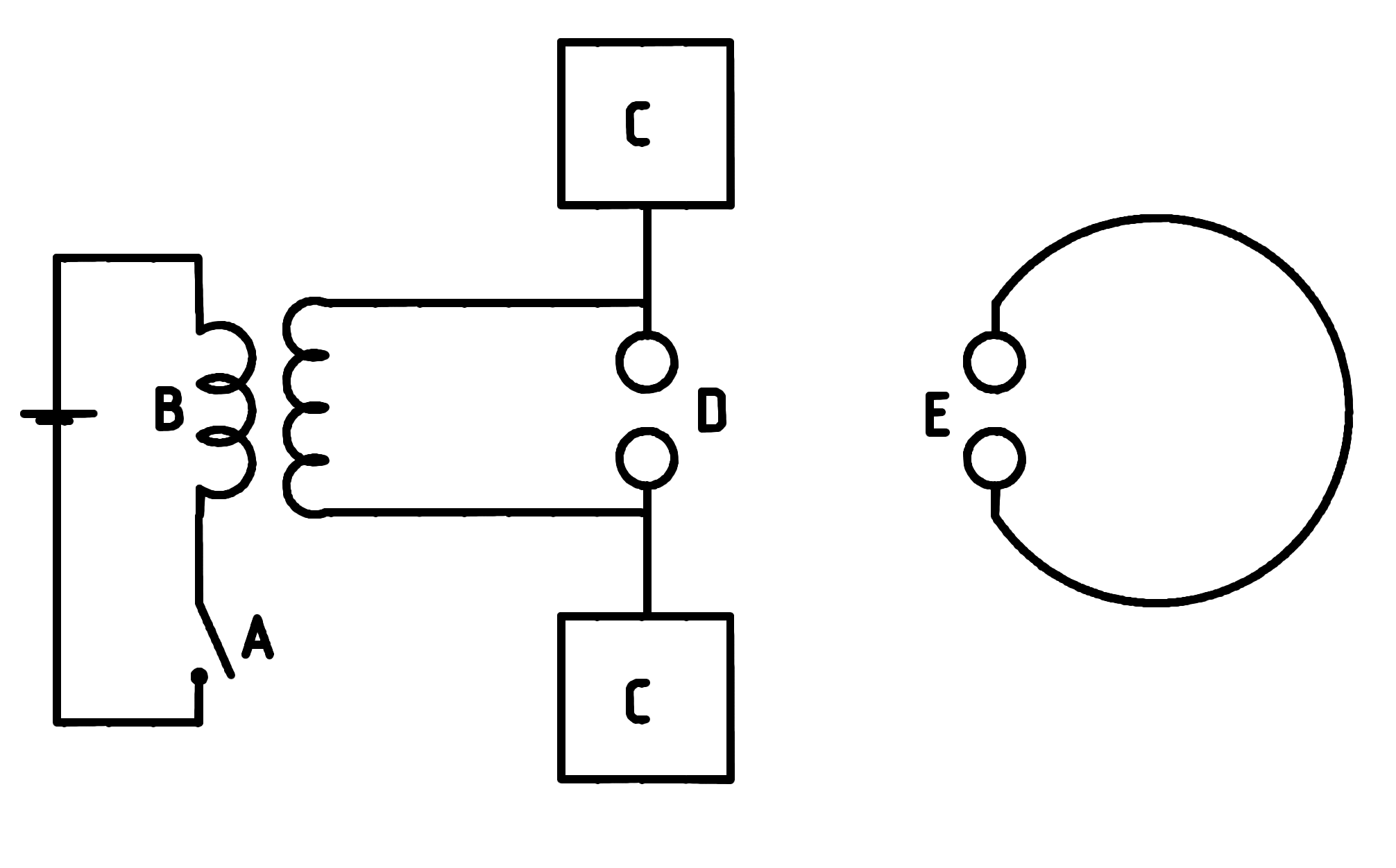 Outline of Hertz's experiment. A: switch; B: transformer; C: metal plates; D: spark gap; E: receiver